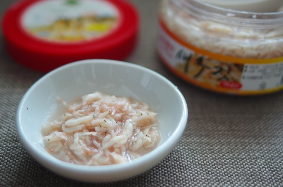 saeujeot (fermented shrimp) jeotgal (Caridea)